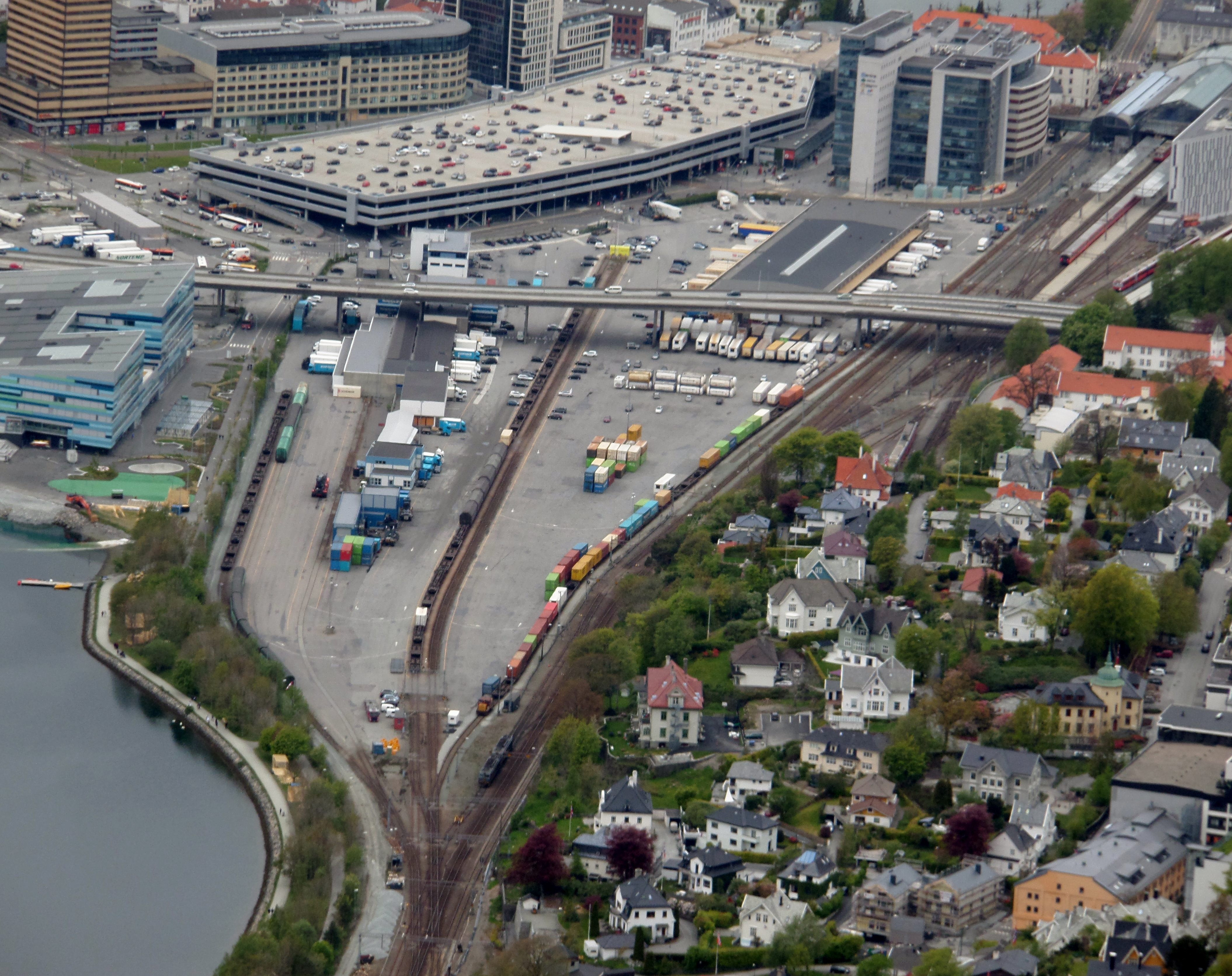 Bergen Station and Container Depot from Mount Floyen, Bergen, Norway.